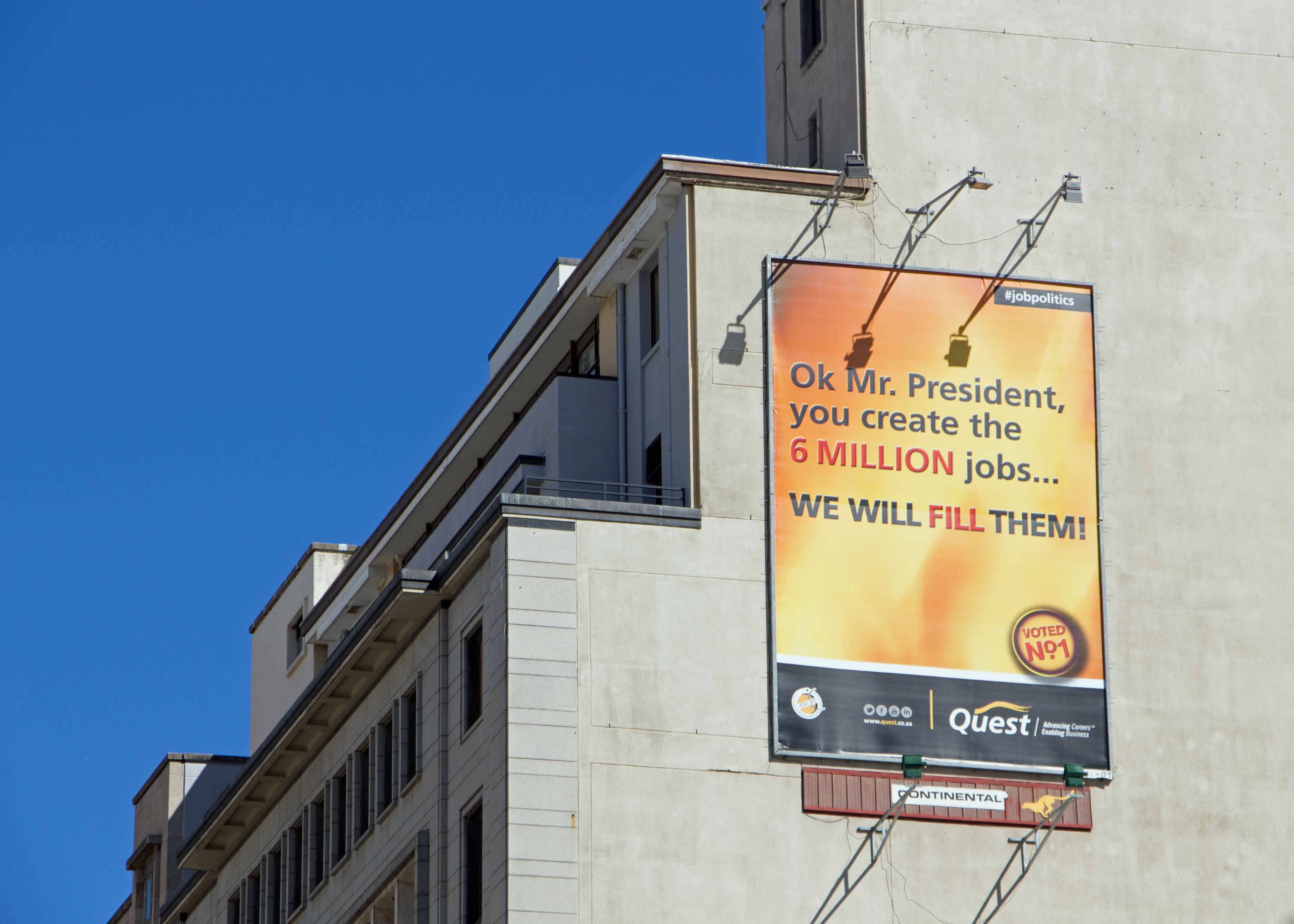 Billboard on Union Castle Building in Adderley Street in Cape Town city centre two weeks before the 2014 South African general election. President Jacob Zuma promises to create 6 million new jobs if the ANC stays in power after the election.